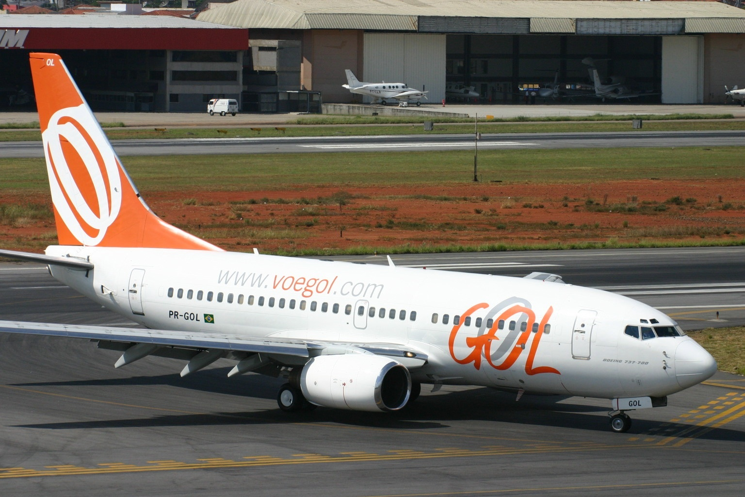 At Sao Paulo Congonhas